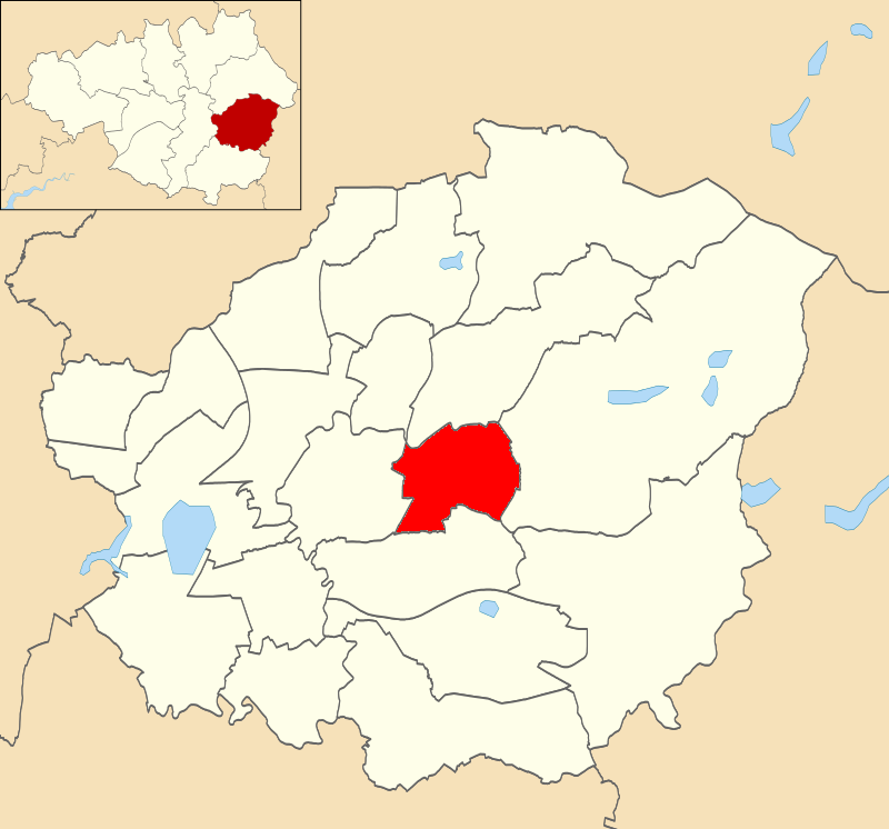 Map showing location of Dukinfield / Stalybridge Ward within Tameside Metropolitan Borough Council.